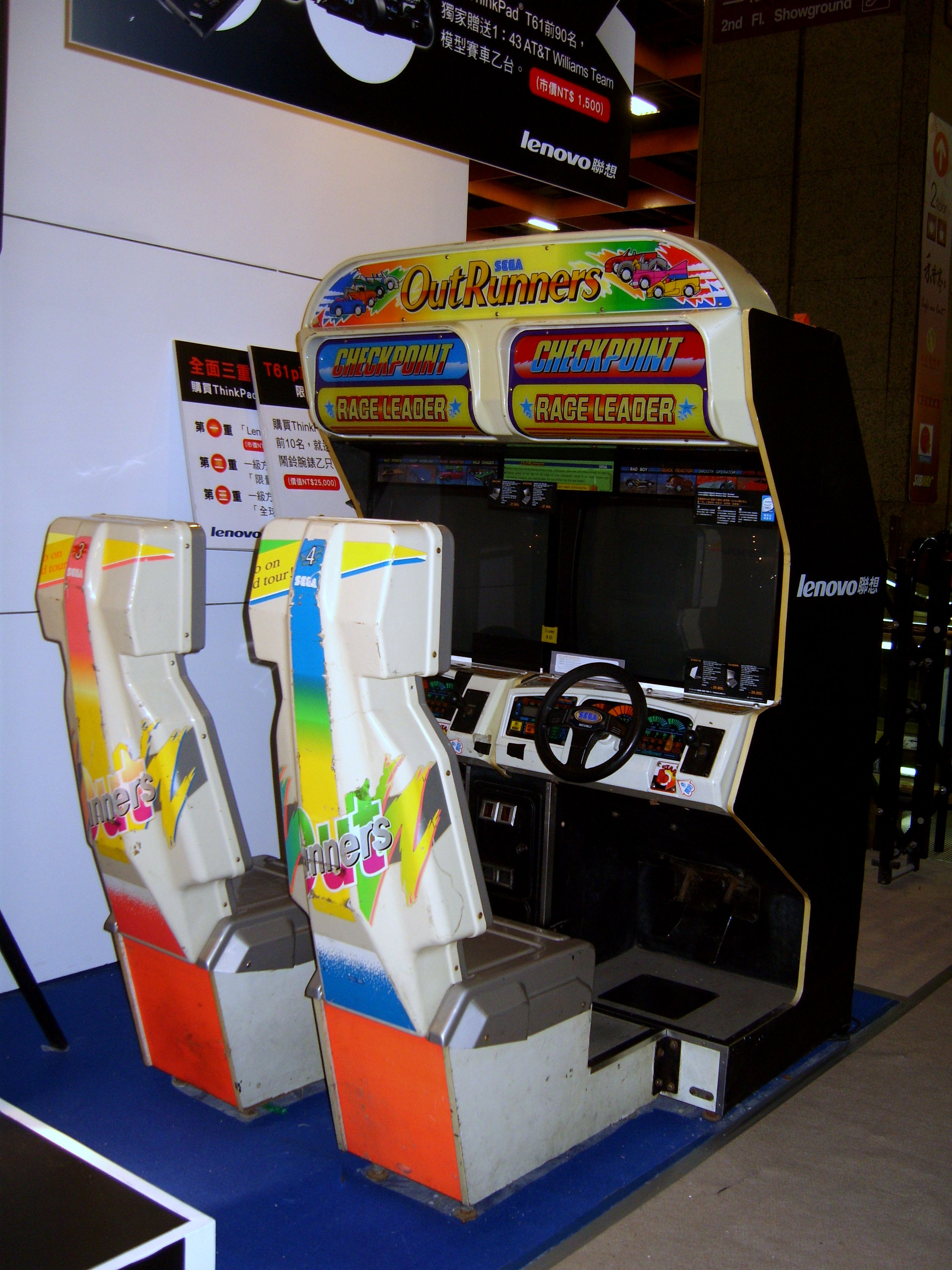 2007 Taipei IT Month: Sega OutRunners arcade game at IBM booth.